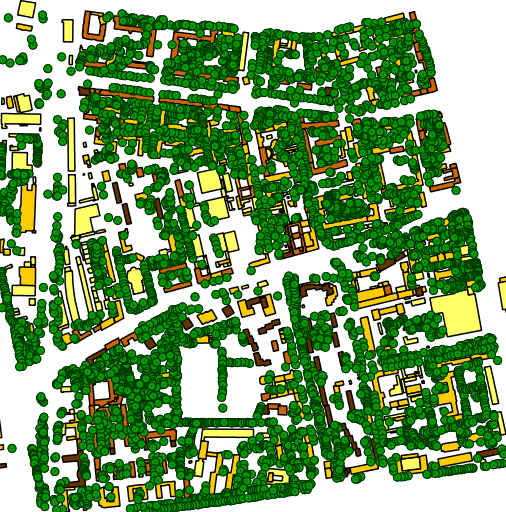 Map image - answer for valid GetMap request (Web Map Service)